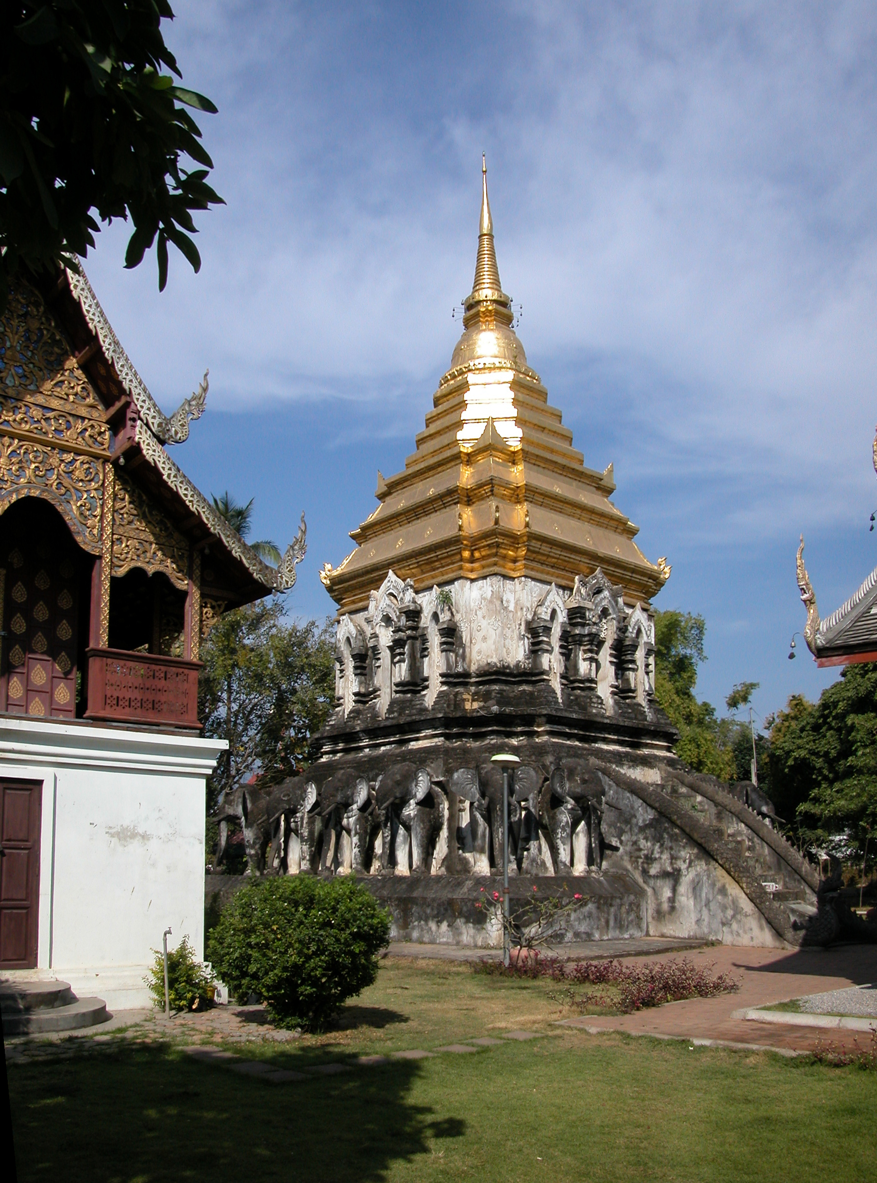 The Chedi Chang Lom (elephant chedi) of Wat Chiang Man in Chiang Mai (Thailand)